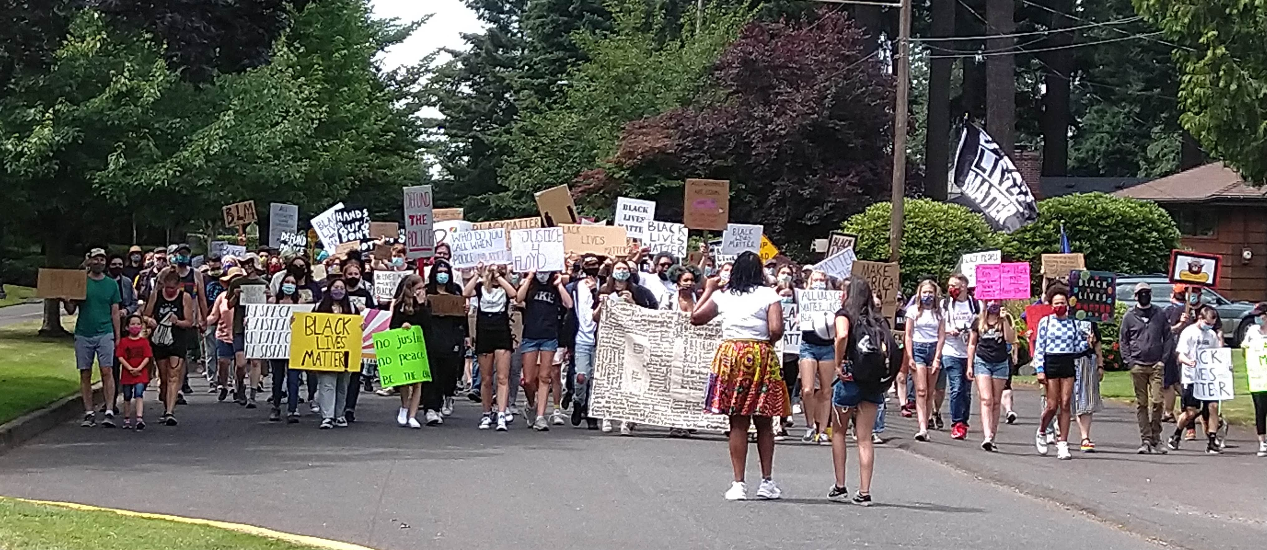 Photo from the youth-lead George Floyd protest in Maywood Park, Oregon, July 4, 2020